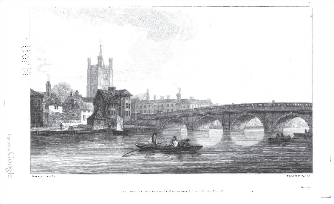 Illustration of Henley Bridge (UK). Book in the public domain (image extracted from Google books)